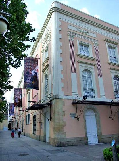 Great Theater in Córdoba (Spain).